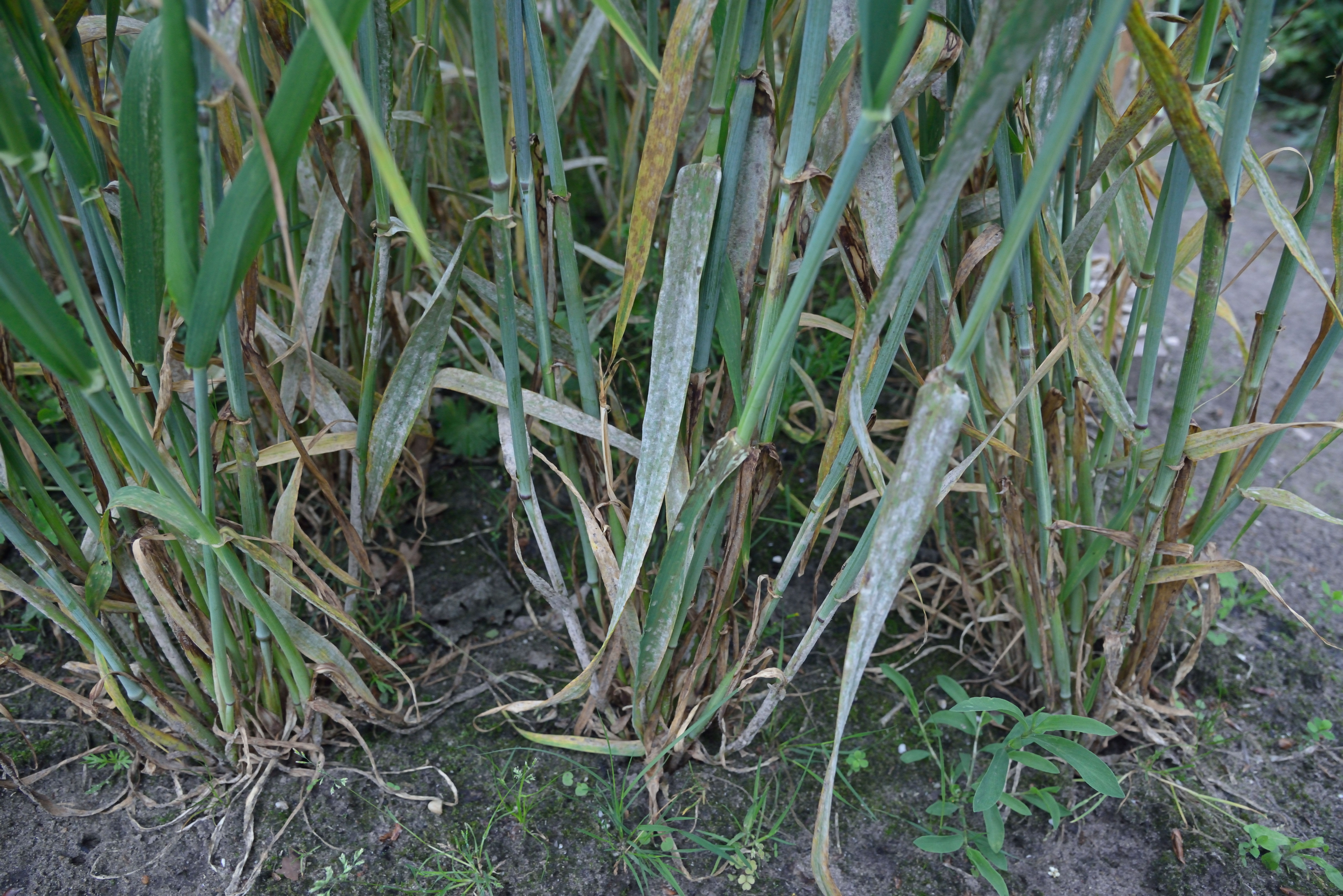 Blumeria graminis at Hordeum vulgare